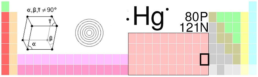 Image by GreatPatton, released under terms of the GNU FDL on 22 July 2003.